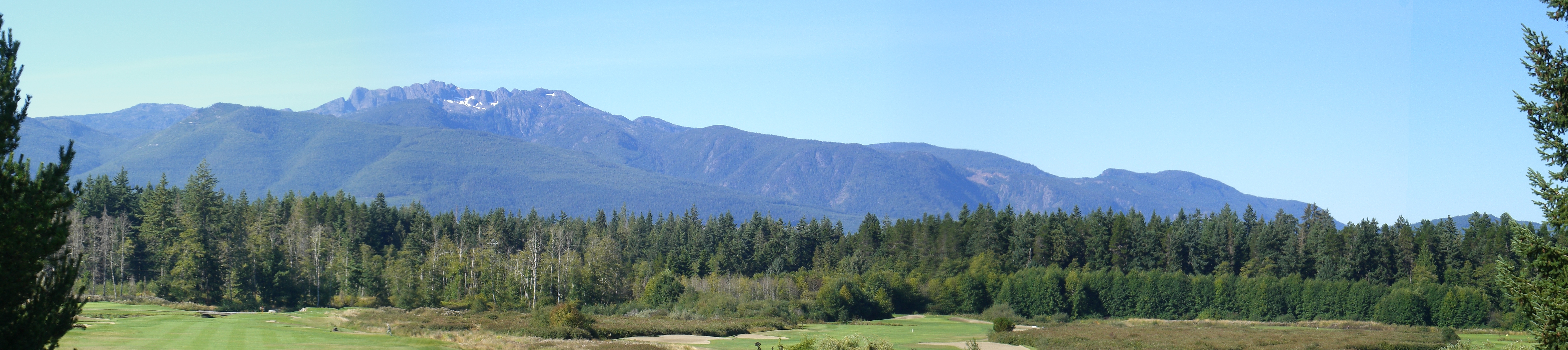 Panorama of Mt Arrowsmith taken in the morning from Pheasant Glen Golf Resort in Qualicum Beach, BC facing South.